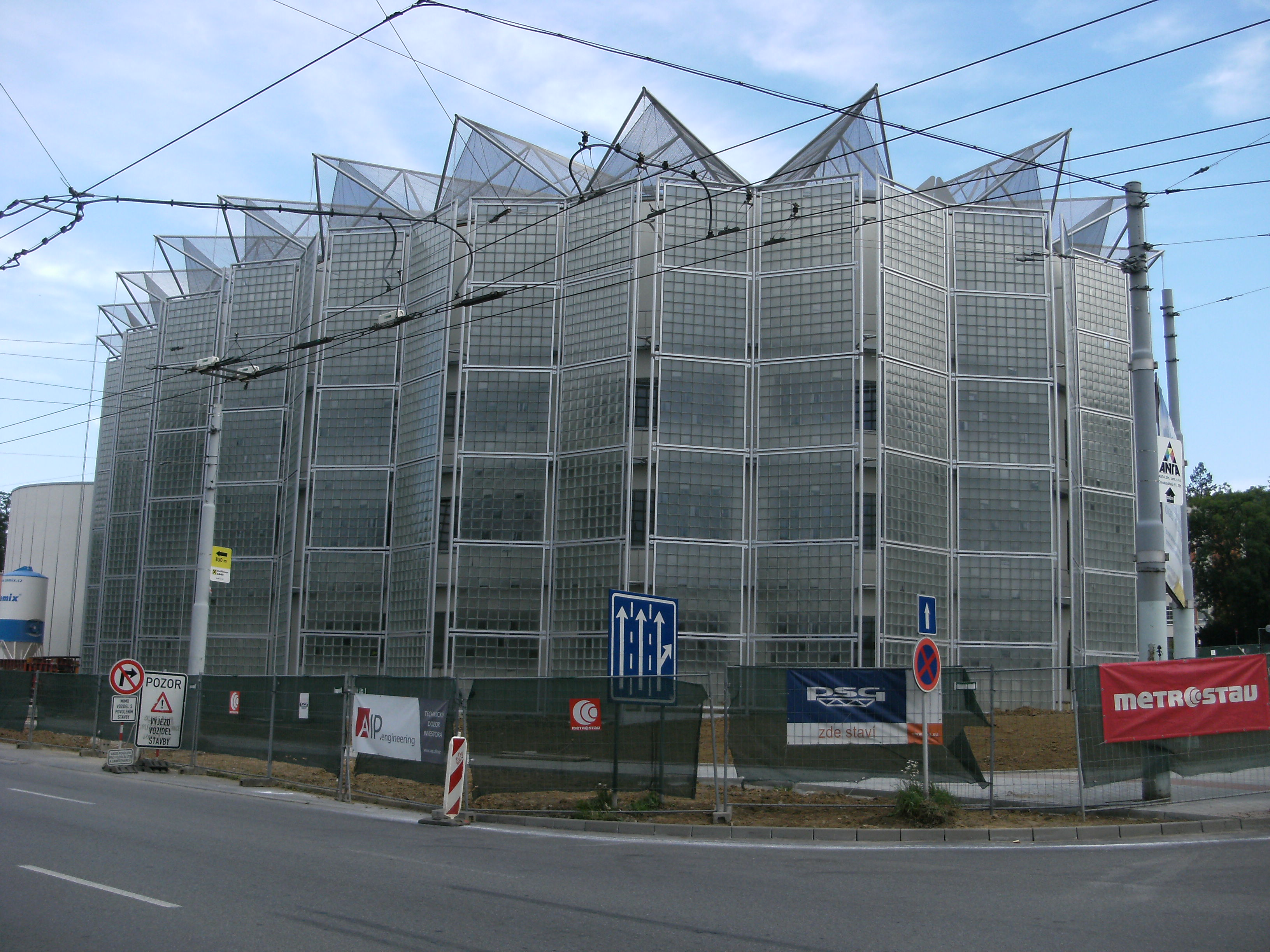 University building in Zlín.